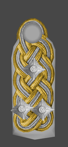 Rang insignia shoulder strap, here “SS-Oberst-Gruppenfuehrer and Colonel general of the Waffen-SS” (today comparable to NATO OF-9) until 1945.